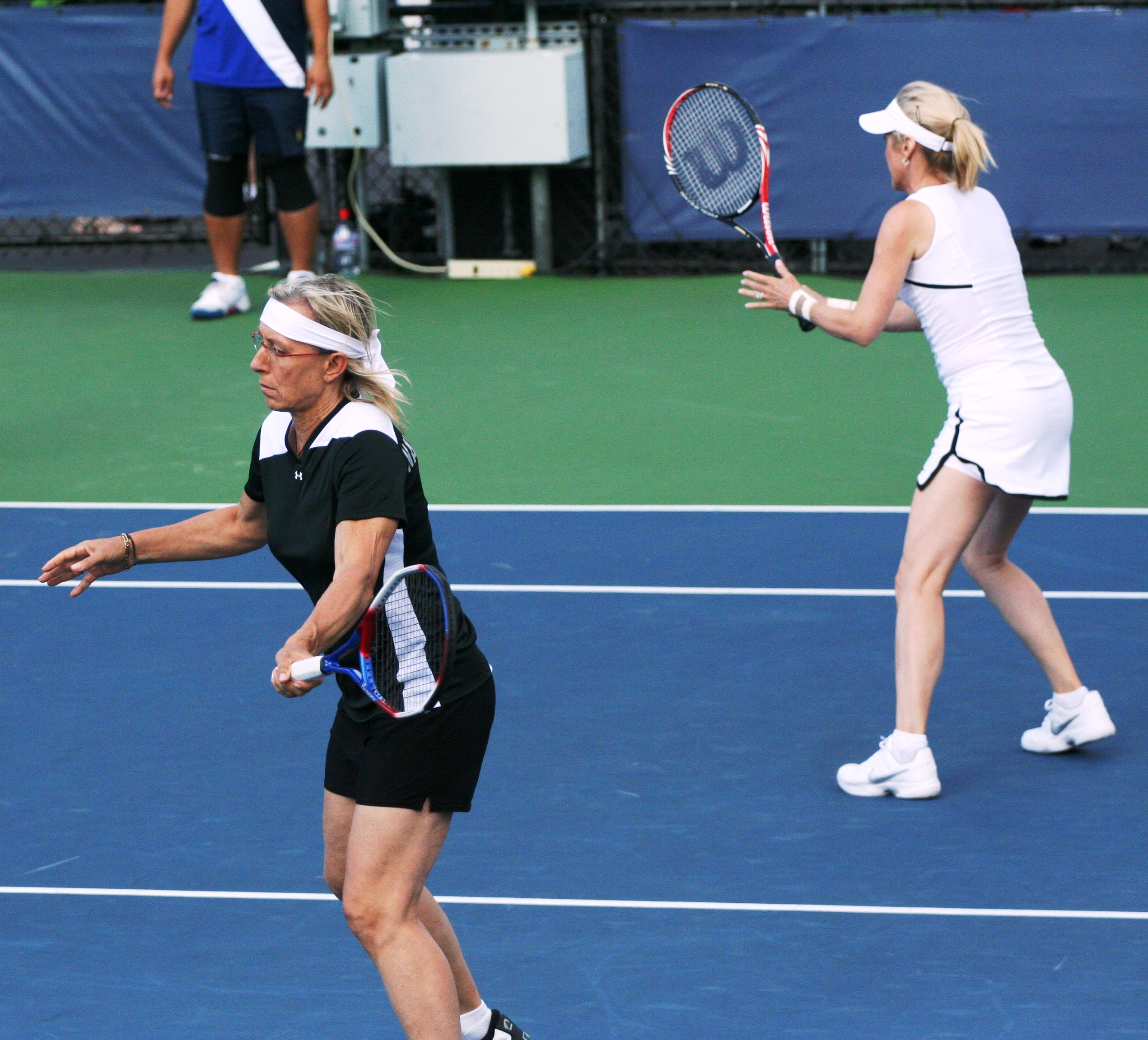 U.S. Open Champions Team Tennis Thursday, Sept. 9, 2010